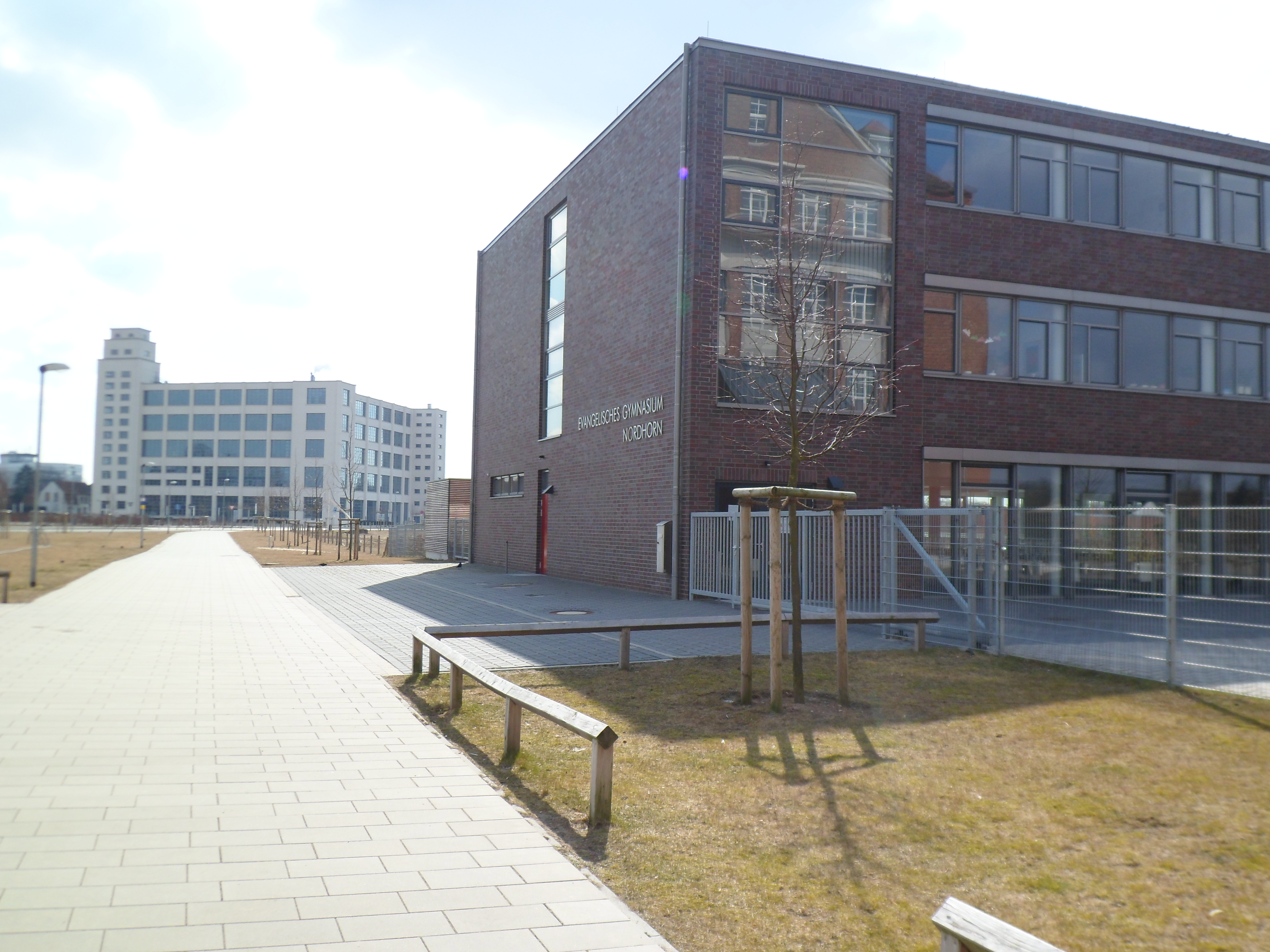 Nordhorn, Gymnasium vor Spinnerei-Hochbau